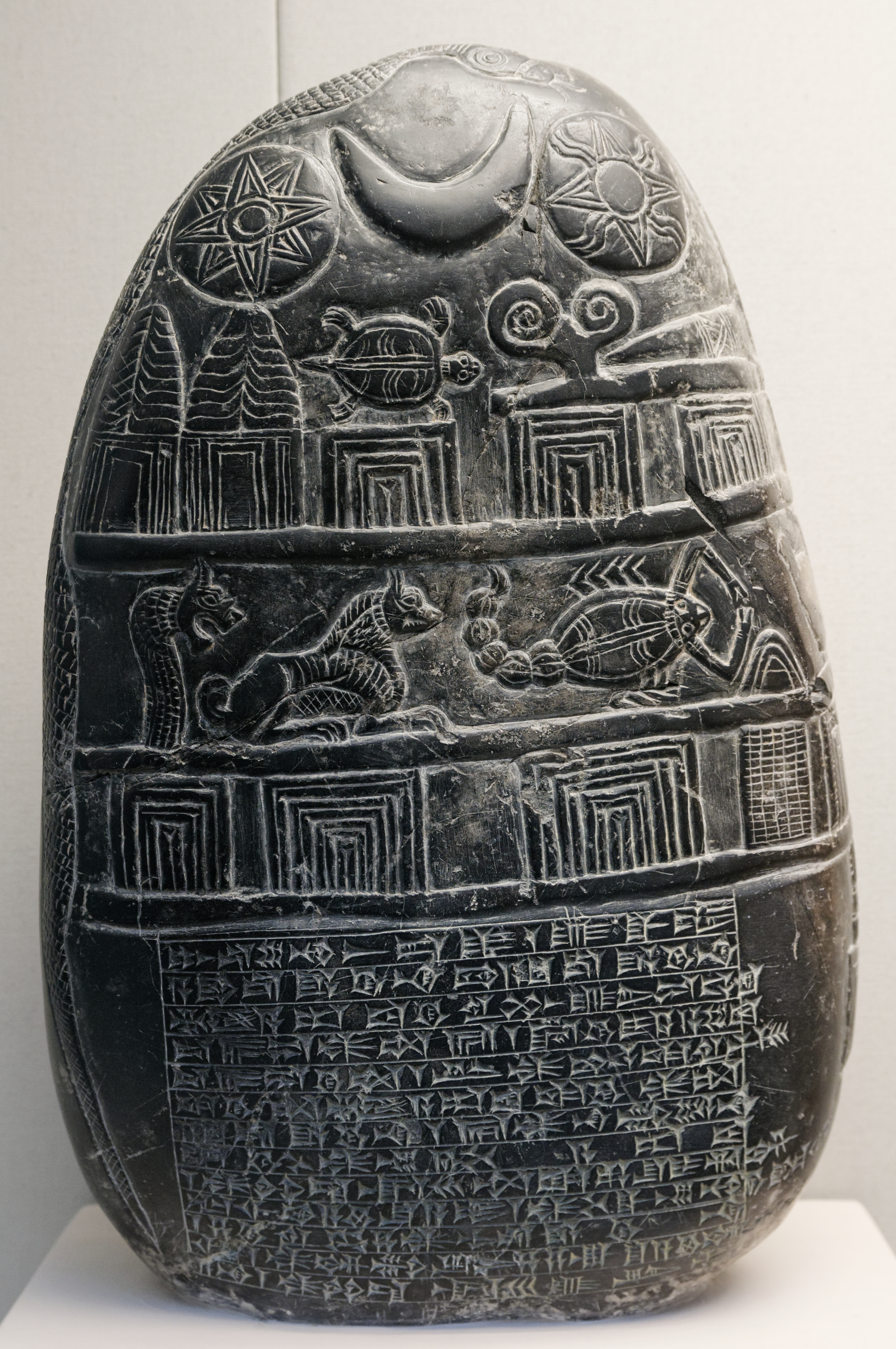 Kudurru (boundary stone) recording a grant of five gur of corn-land, in the district of Edina in Southern Babylonia, to Gula-eresh by Eanna-shum-iddina, governor of the Sea-Land.